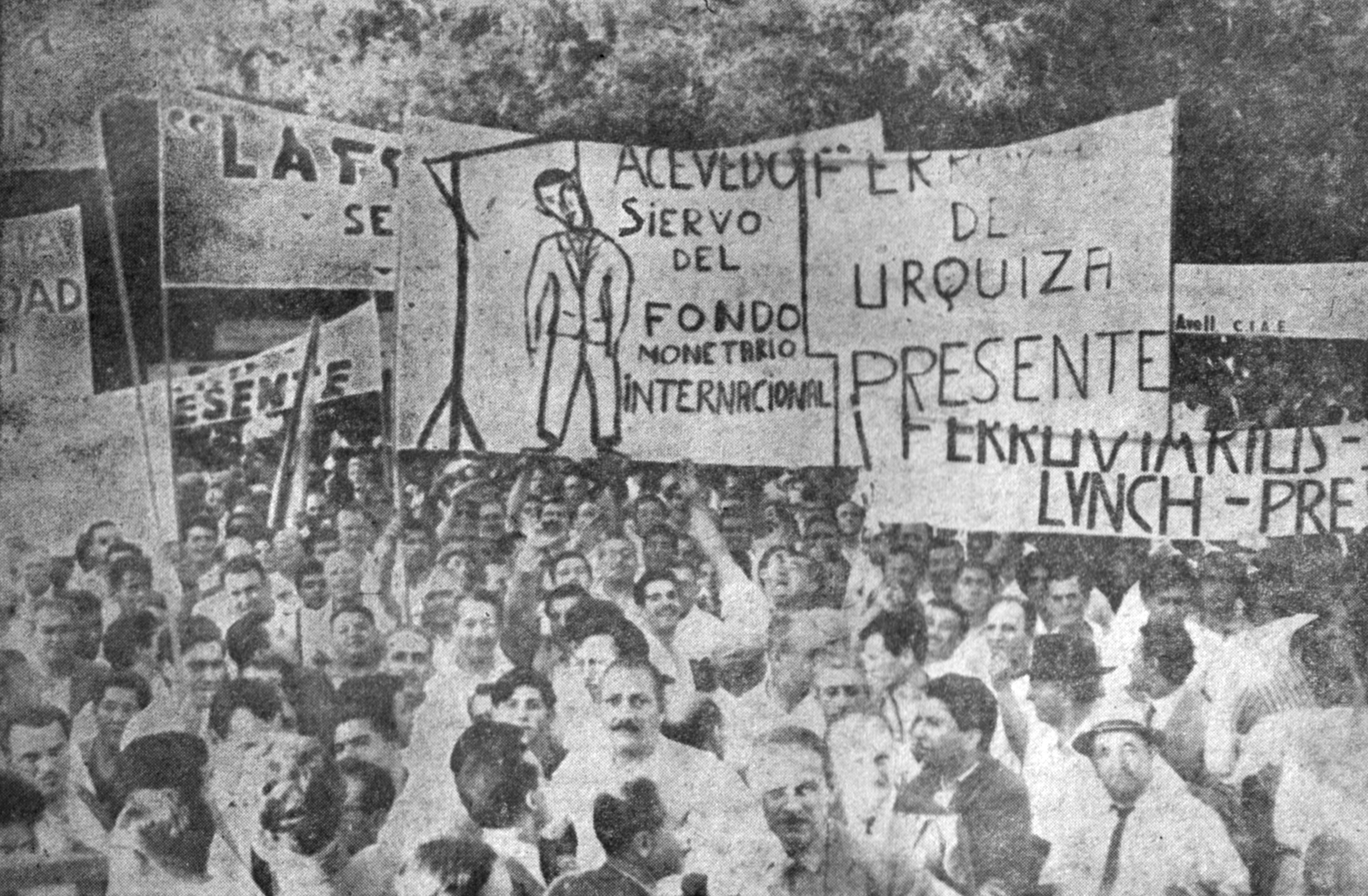 Parque Patricios' demonstration in solidarity with the railway workers dismissed in 1961.